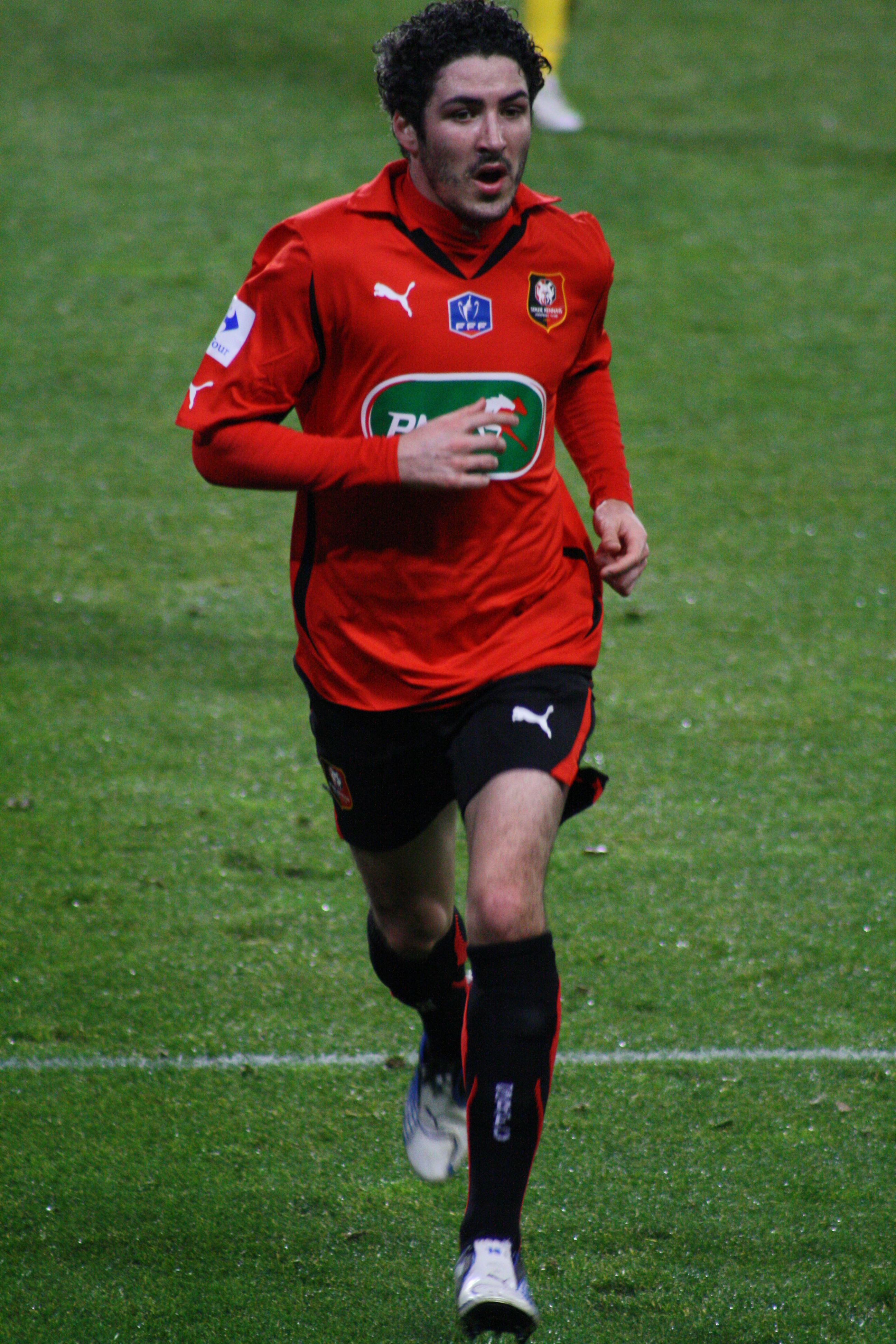 Fabien Lemoine's photo, football player, with Rennes' jersey in 2011.